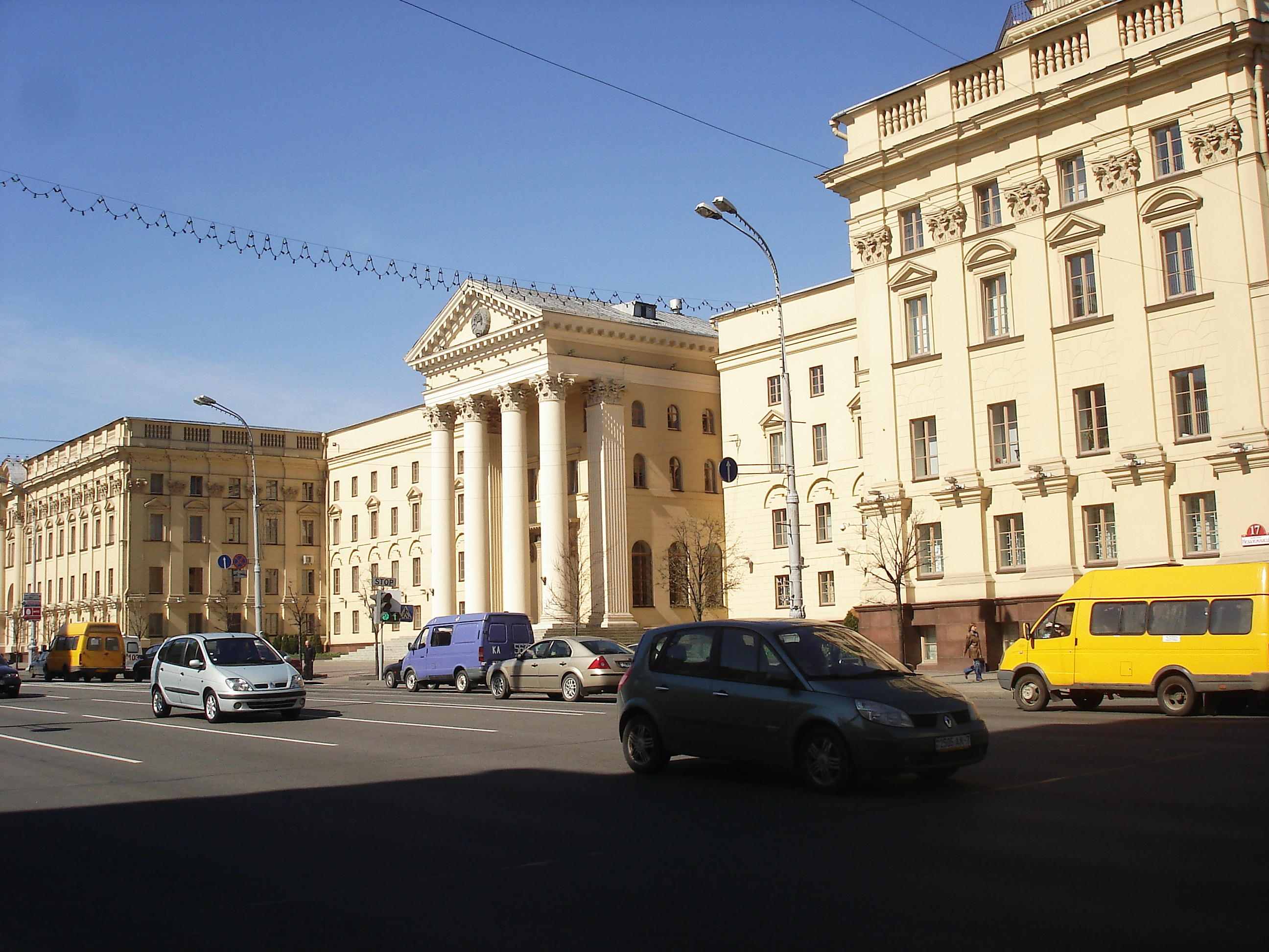 A picture file of the KGB Office, Minsk, Belarus.